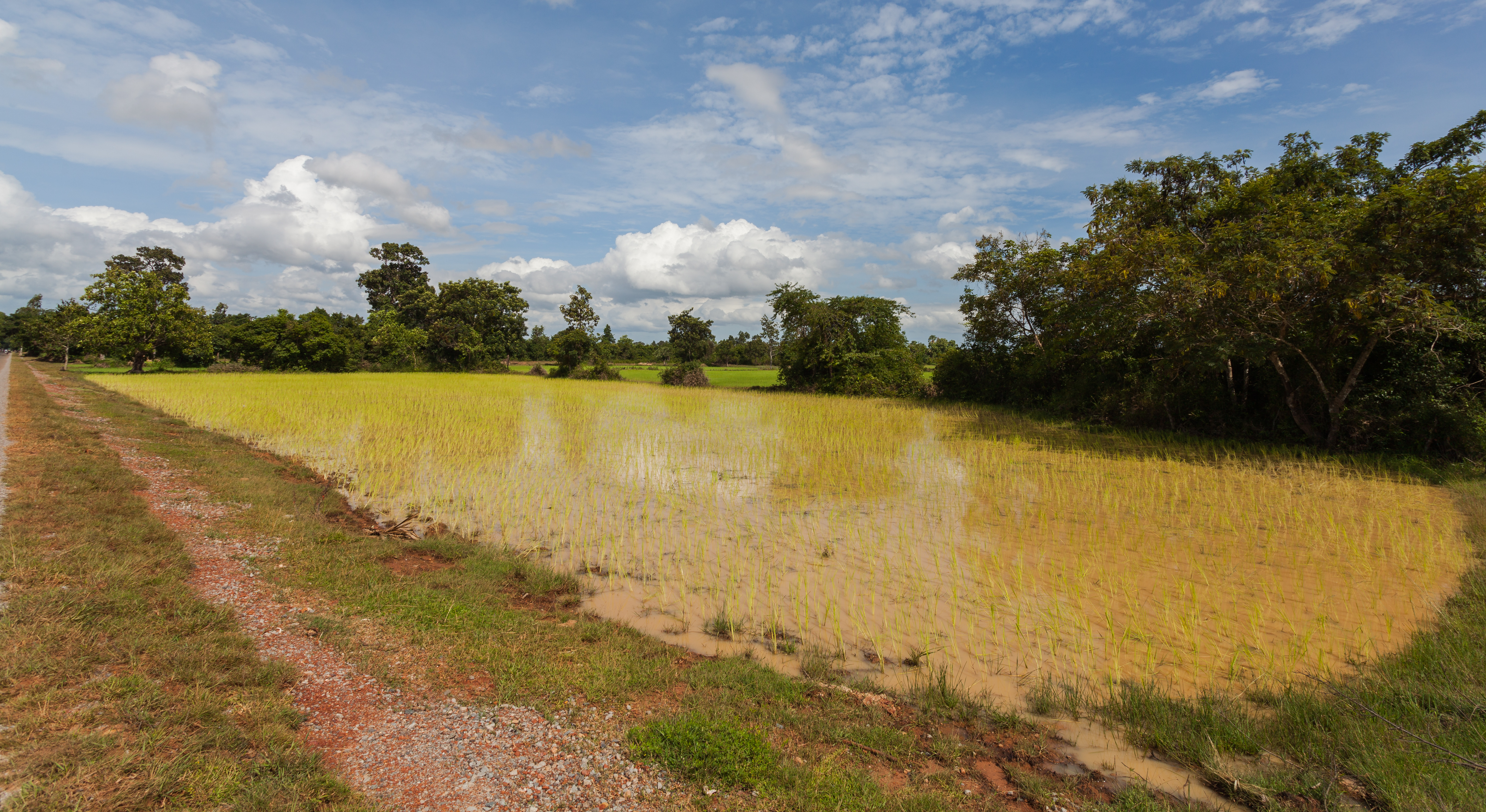 Paddy field, Angkor, Cambodia